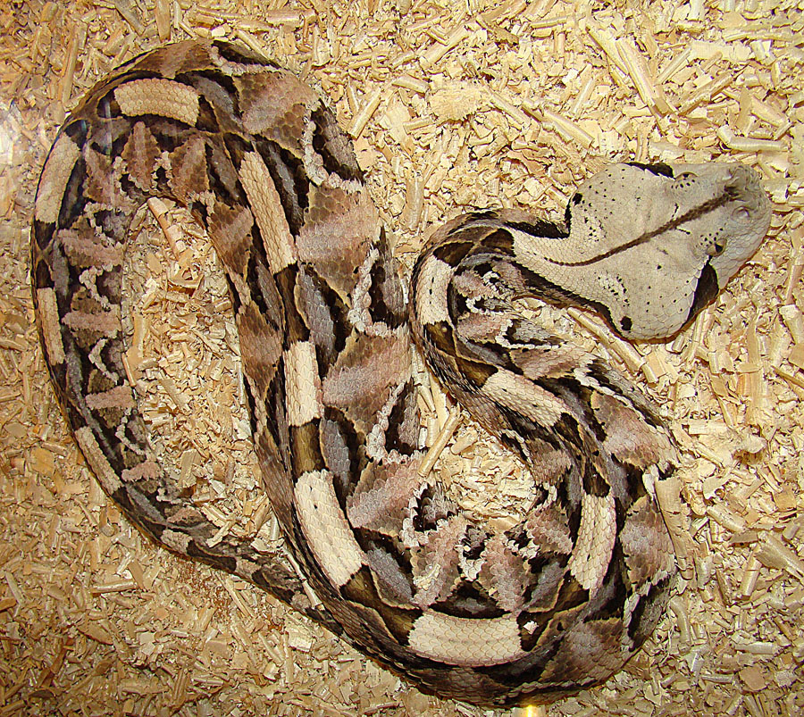 This is the heaviest viper, and also has the longest fangs and most venom. It is native to Equatorial Africa, but this one is at the Serpentarium in Mendoza, Argentina.